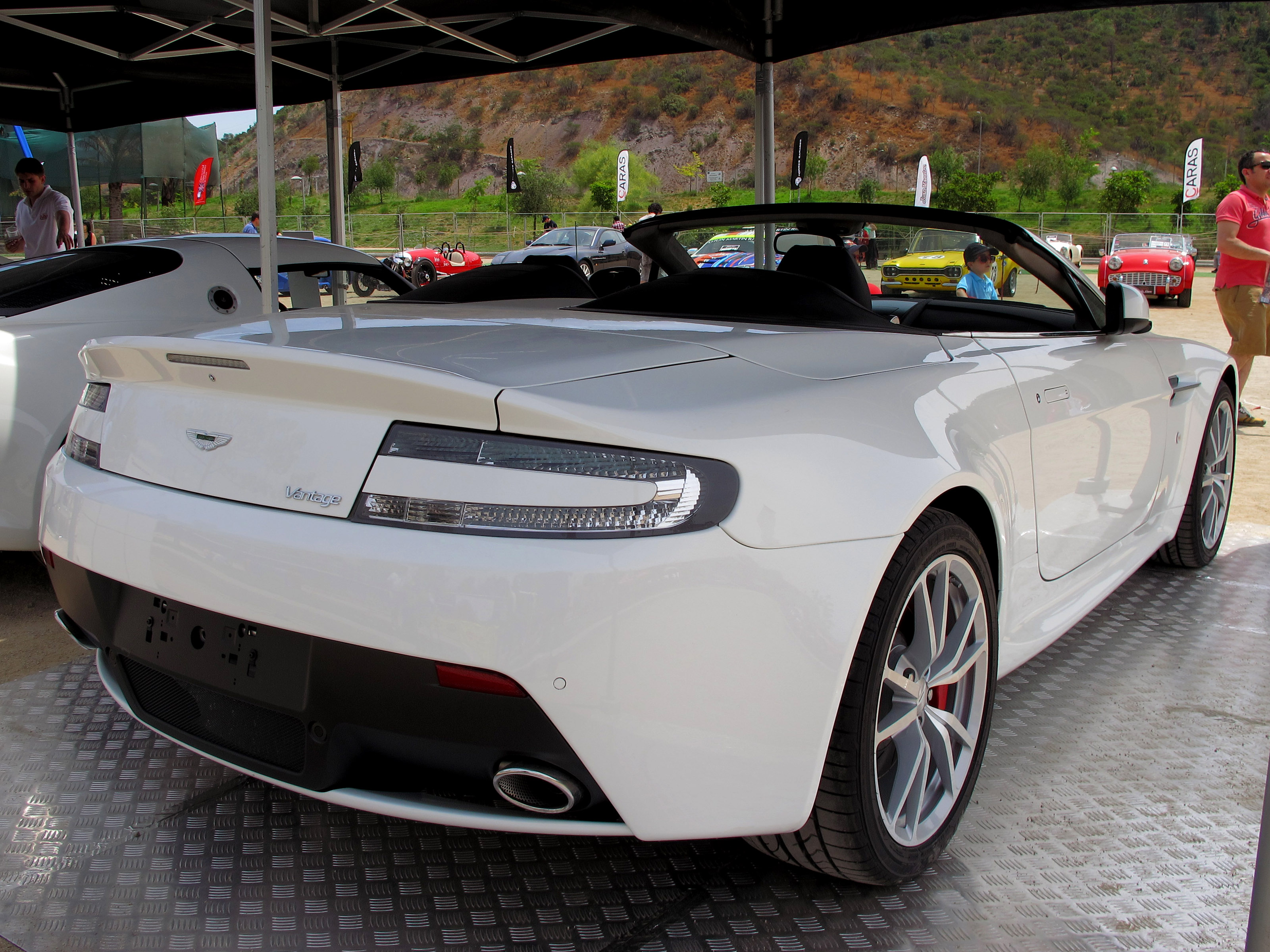 Aston Martin V8 Vantage Roadster 2014